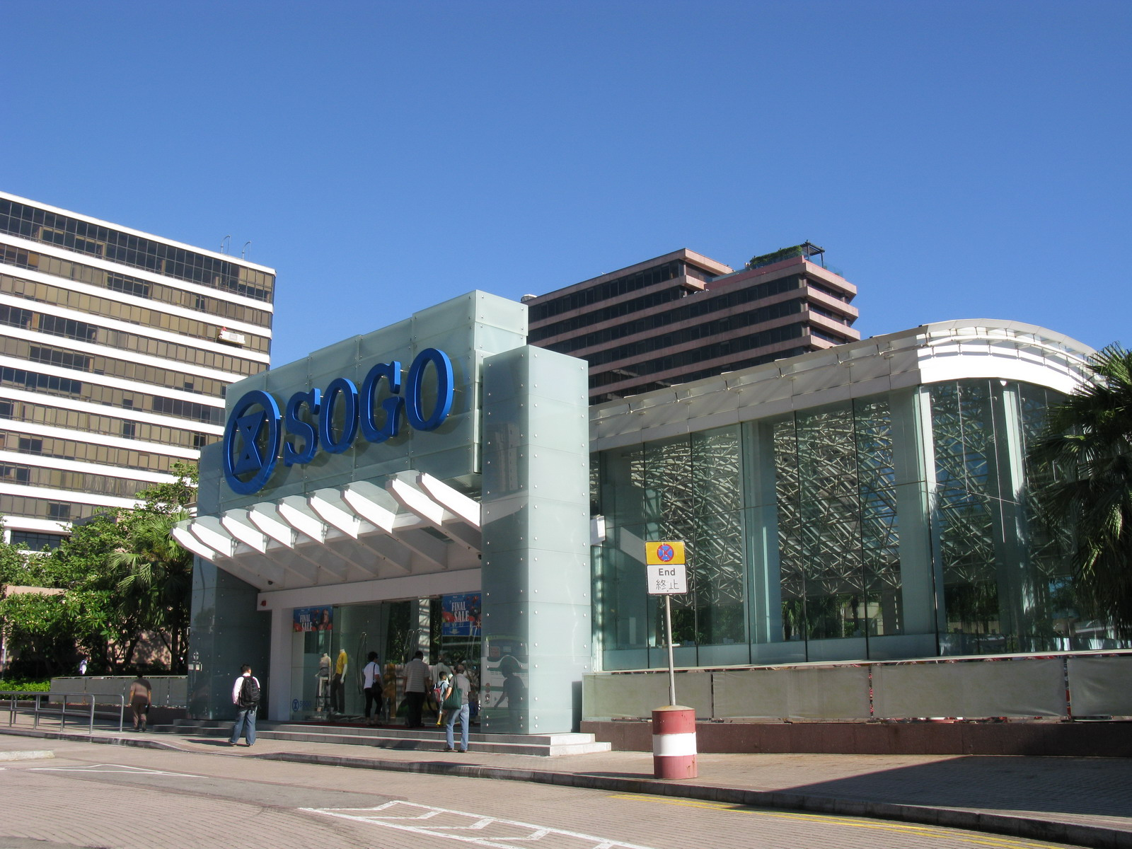 SOGO Tsim Sha Tsui / The Palace Mall (demolished)